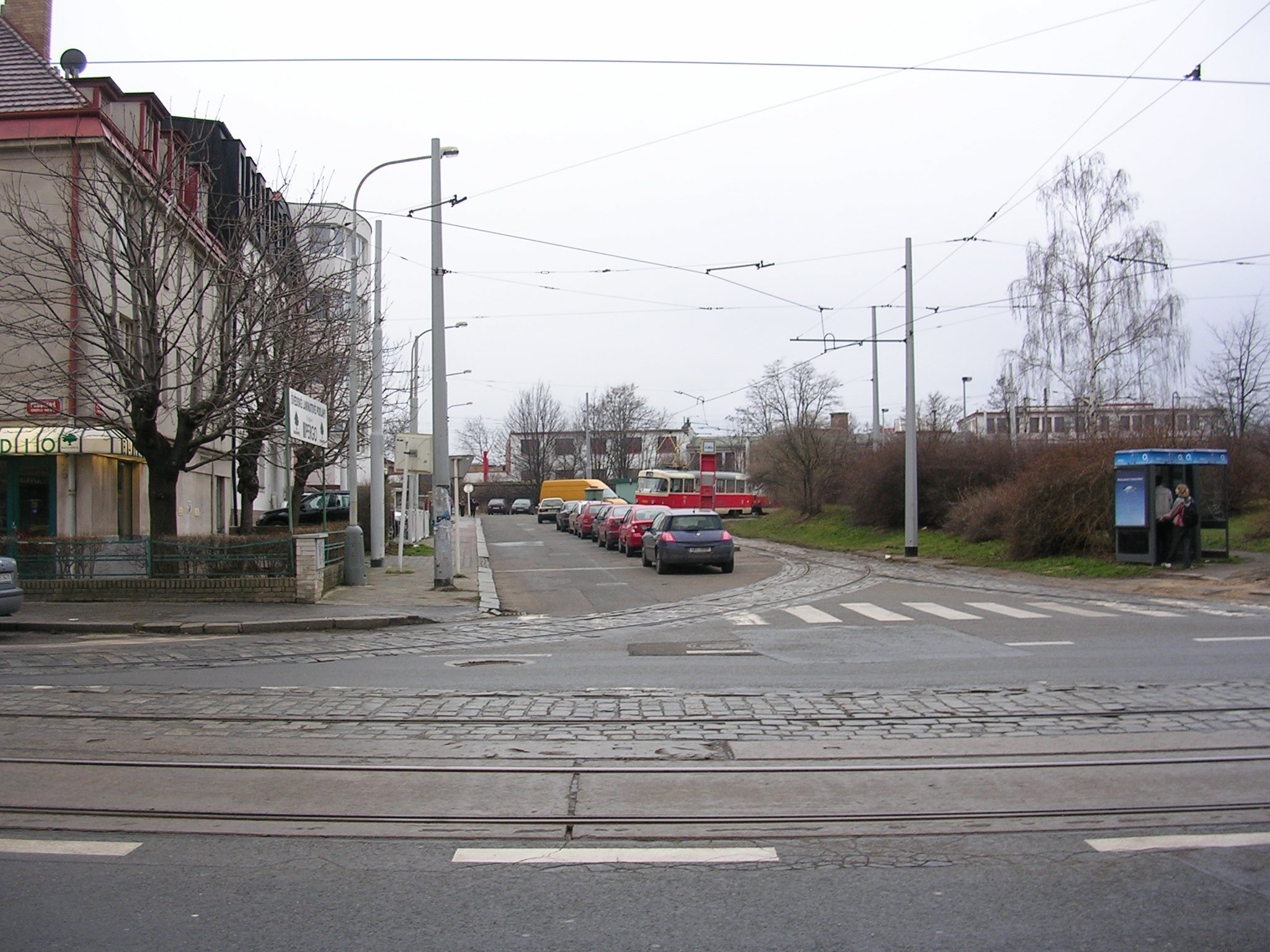 Strašnice, Prague, the Czech Republic.